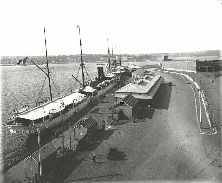 The French liner "Yarra", berthed at Bennelong Point, New South Wales, Australia.